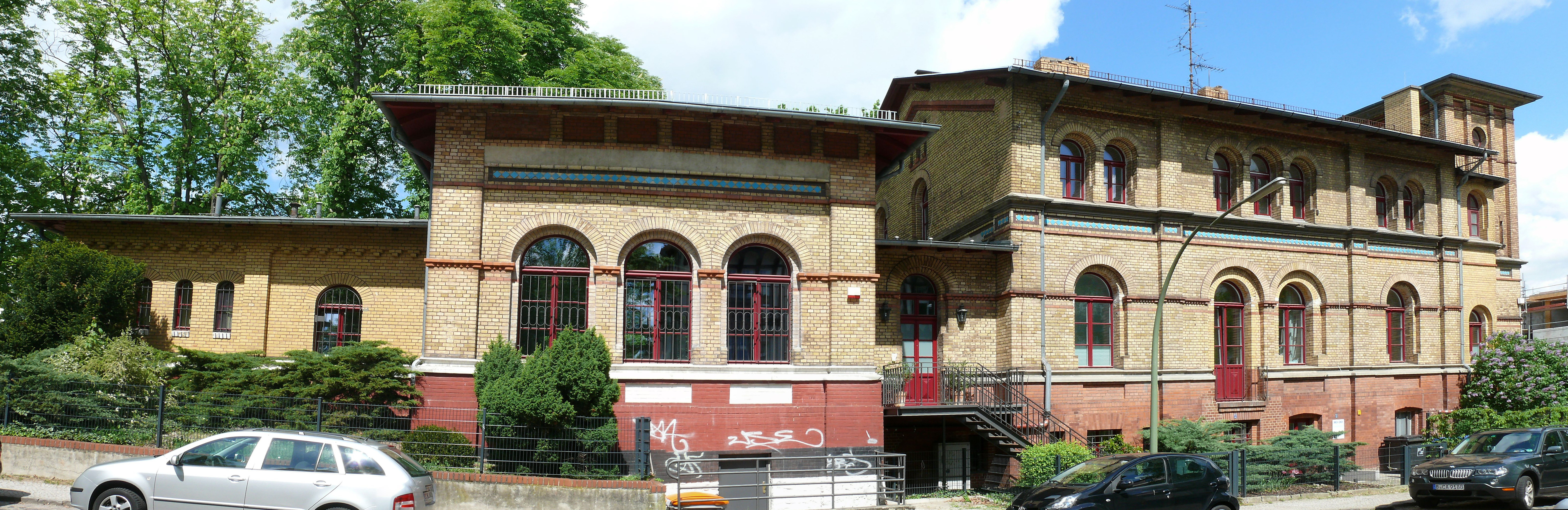 Bahnhof Schlachtensee